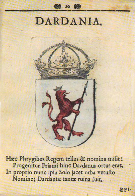 Emblem of Dardanian KingdomShqip: Stema e Mbretërisë Dardane